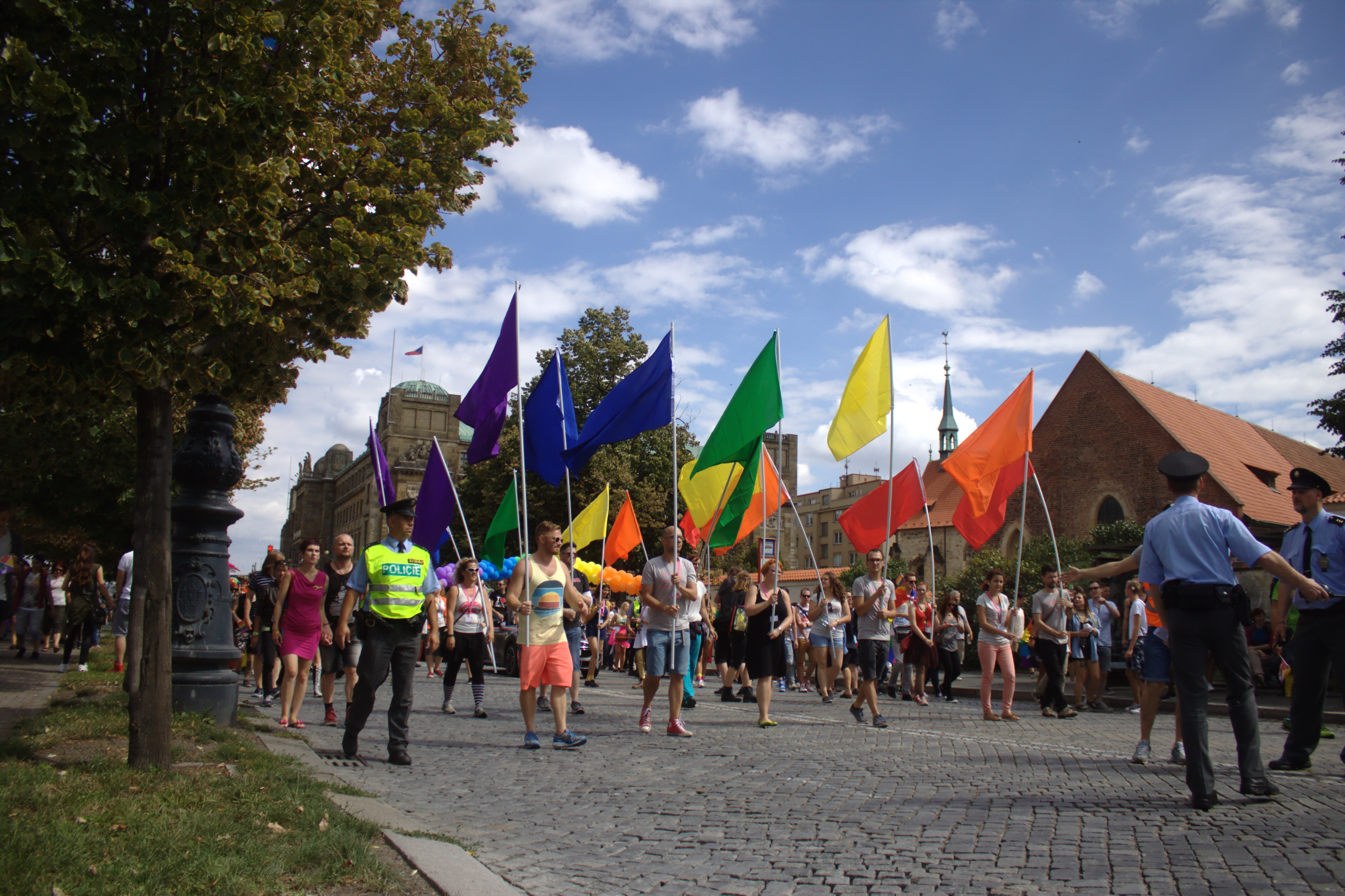 Prague Pride 2015 march in August 2016